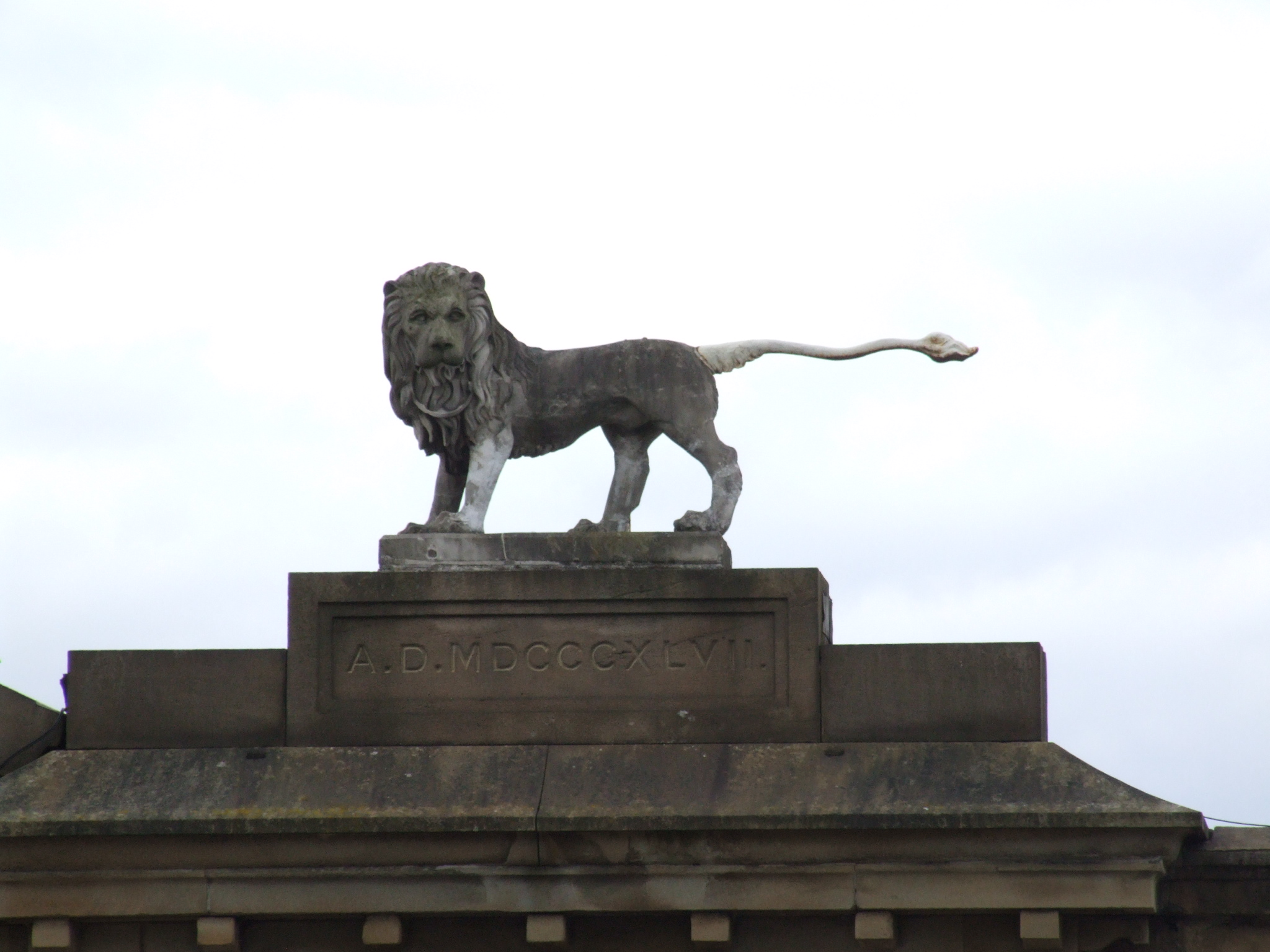 Glossop is a village in Derbyshire on the edge of Greater Manchester. Glossop Station. Lord Norfolk's lion